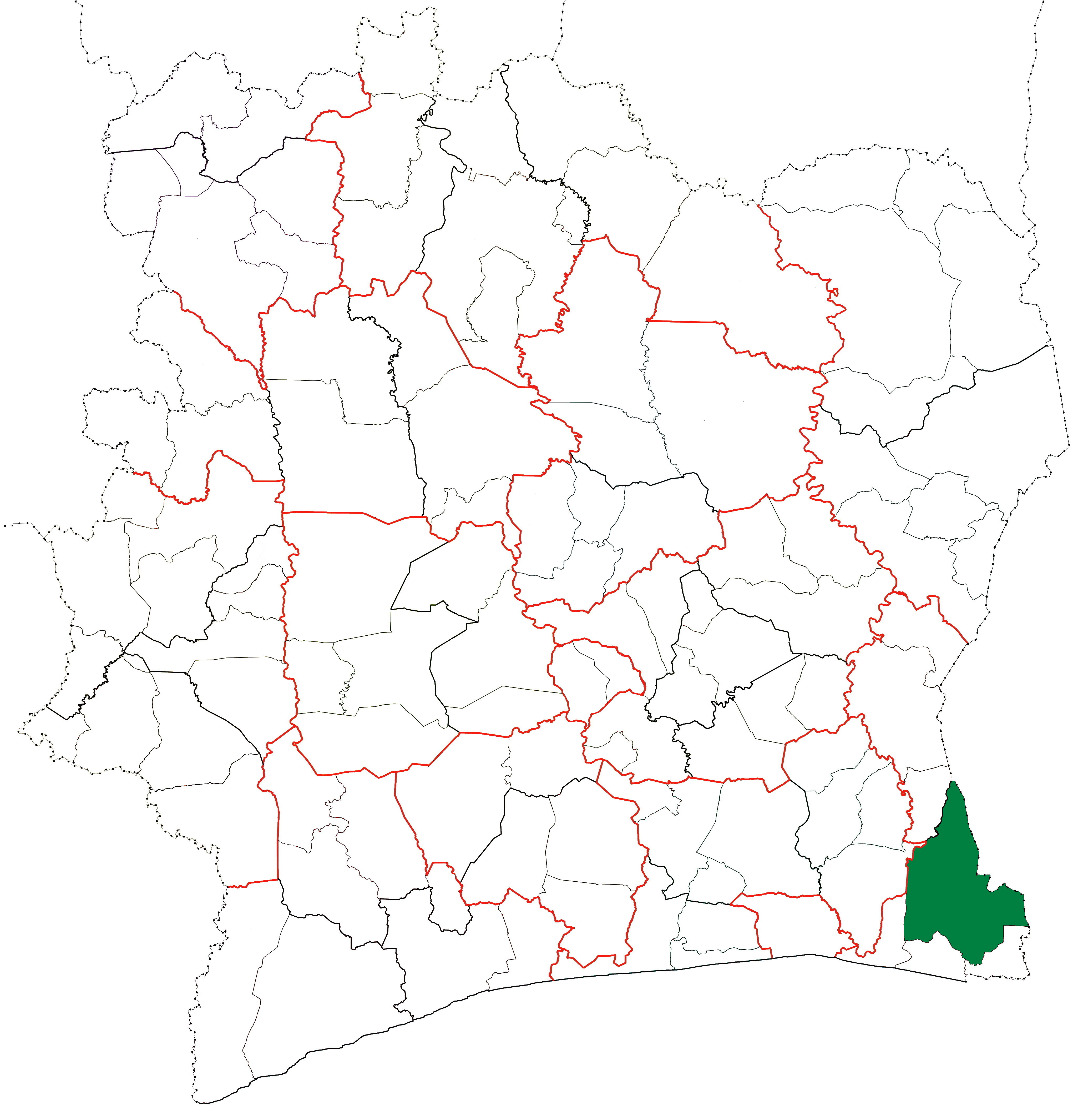 Locator map for Aboisso Department in Côte d'Ivoire.